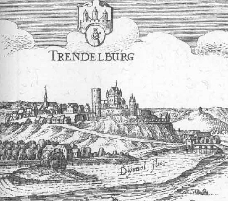 This is a scan of the historical document: Title: Trendelburg - Topographia Hassiae language: german